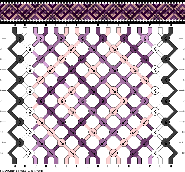 A Normal Pattern friendship bracelets. Copyright information is taken from : User content and copyright "Any user content (material uploaded by users such as patterns, photos etc) belongs to the respective user. The original creator of the content has got copyright on it and decides what happens with it."